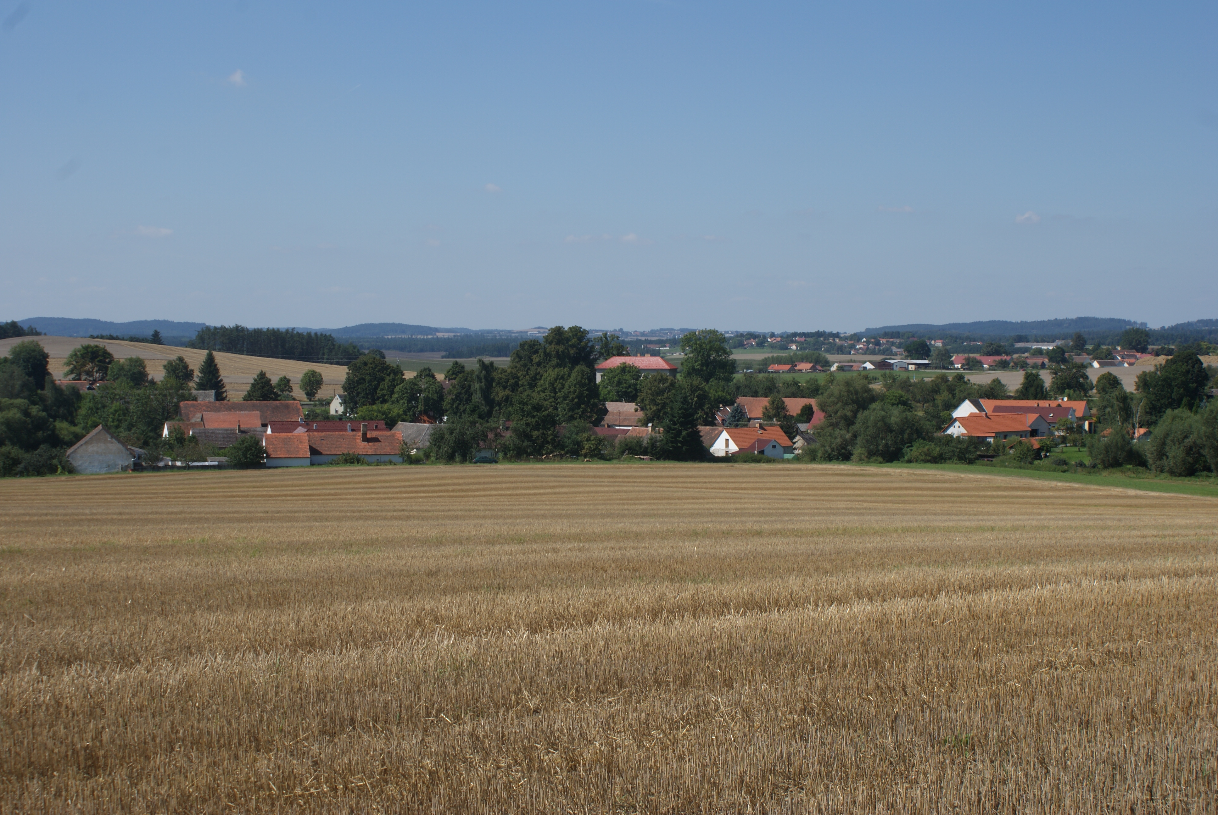 Drhovle a village in Písek district, Czech Republic, general view